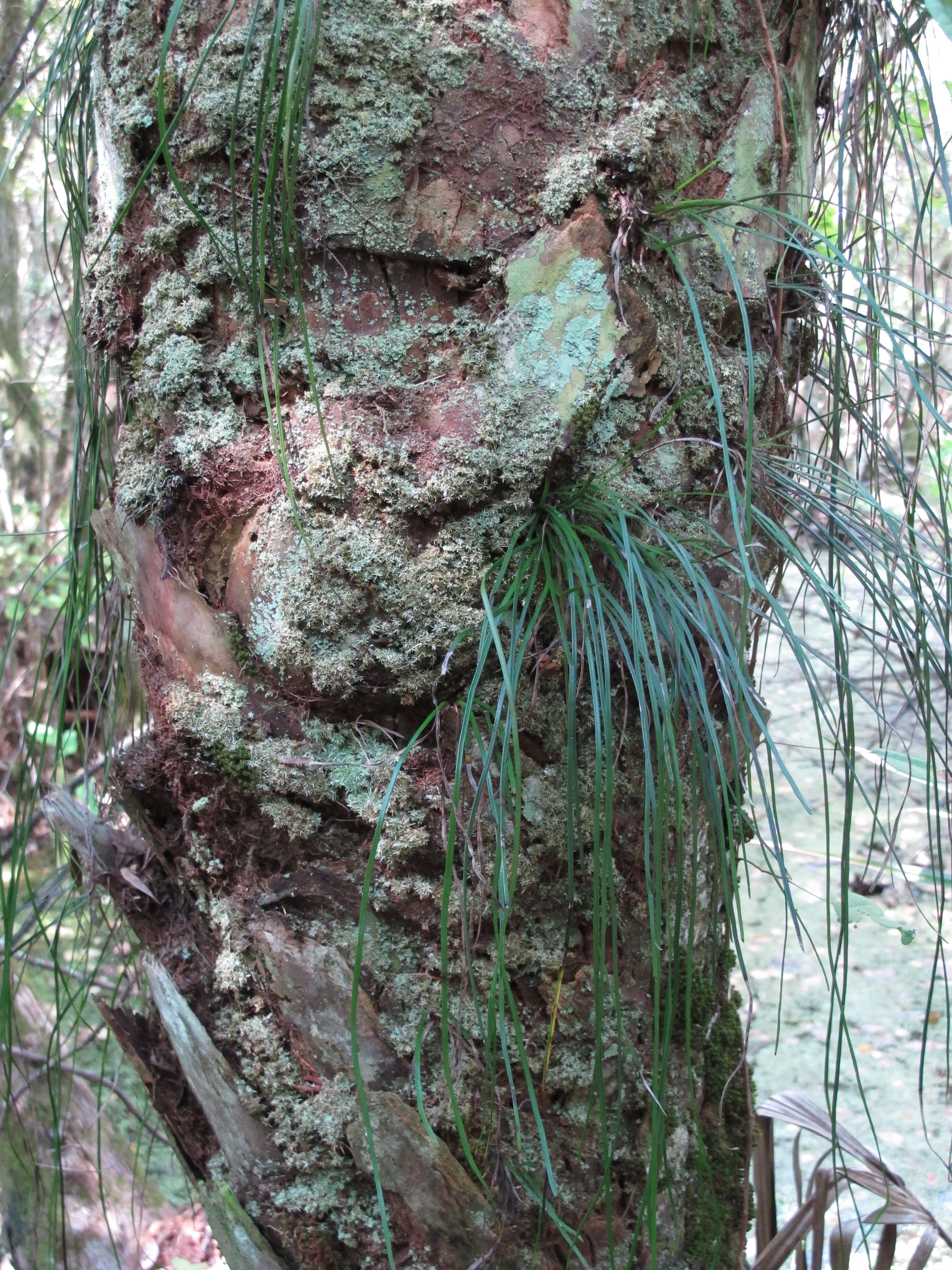 Highlands Hammock State Park, Highlands County, Florida, USA.